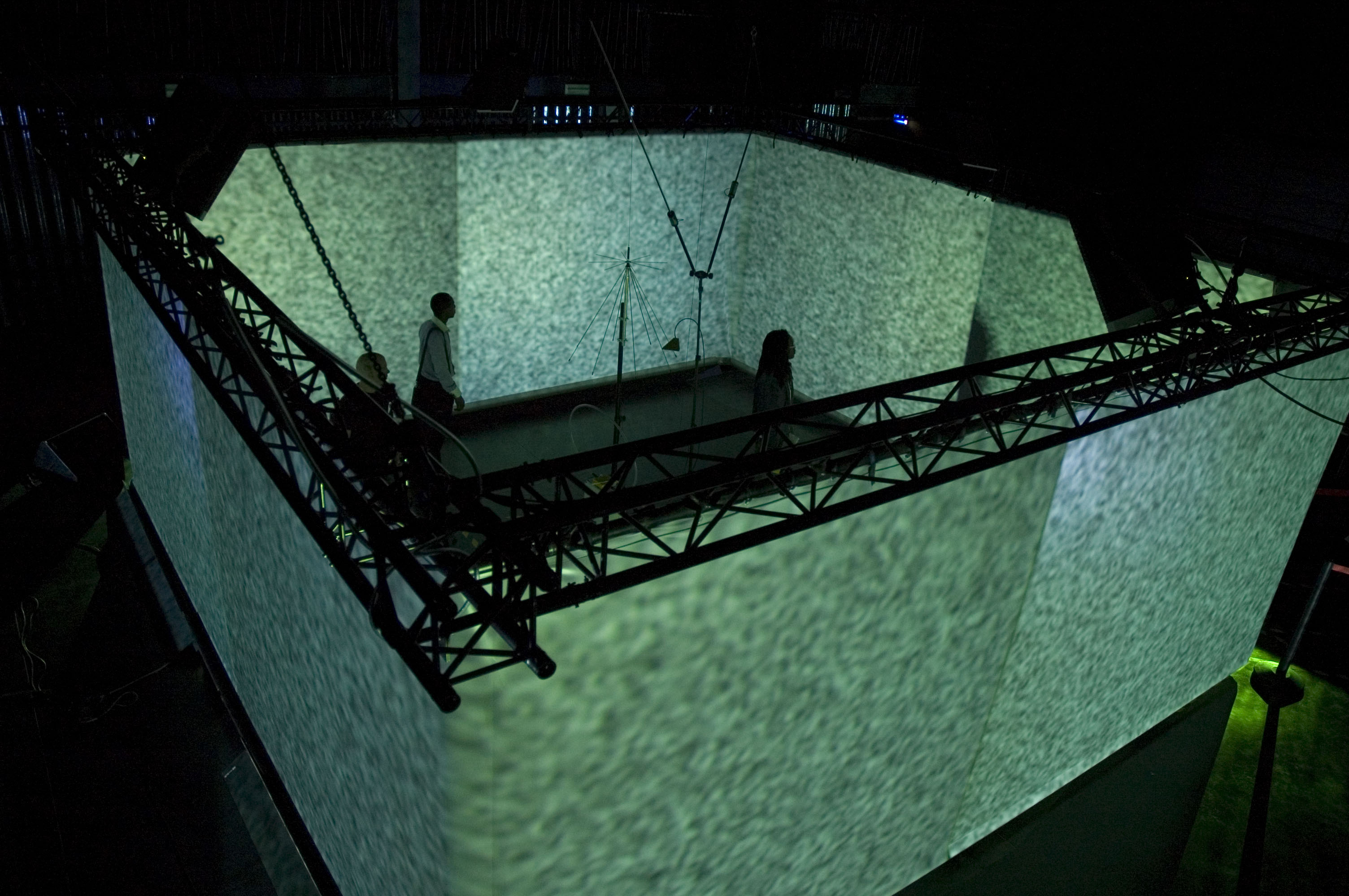 Joachim Montessuis & Horia Cosmin Samoïla "bardo noise" installation